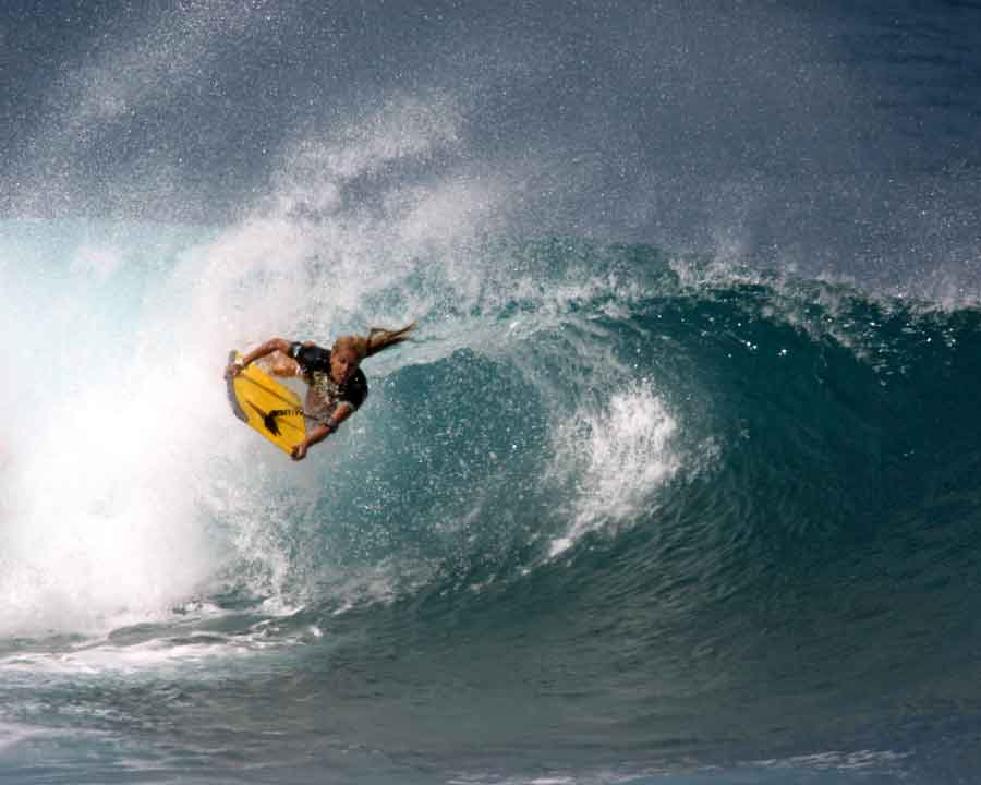 Daniela Freitas doing a barrel roll at Banzai Pipeline during competition on the North Shore of Oahu,Hawaii.